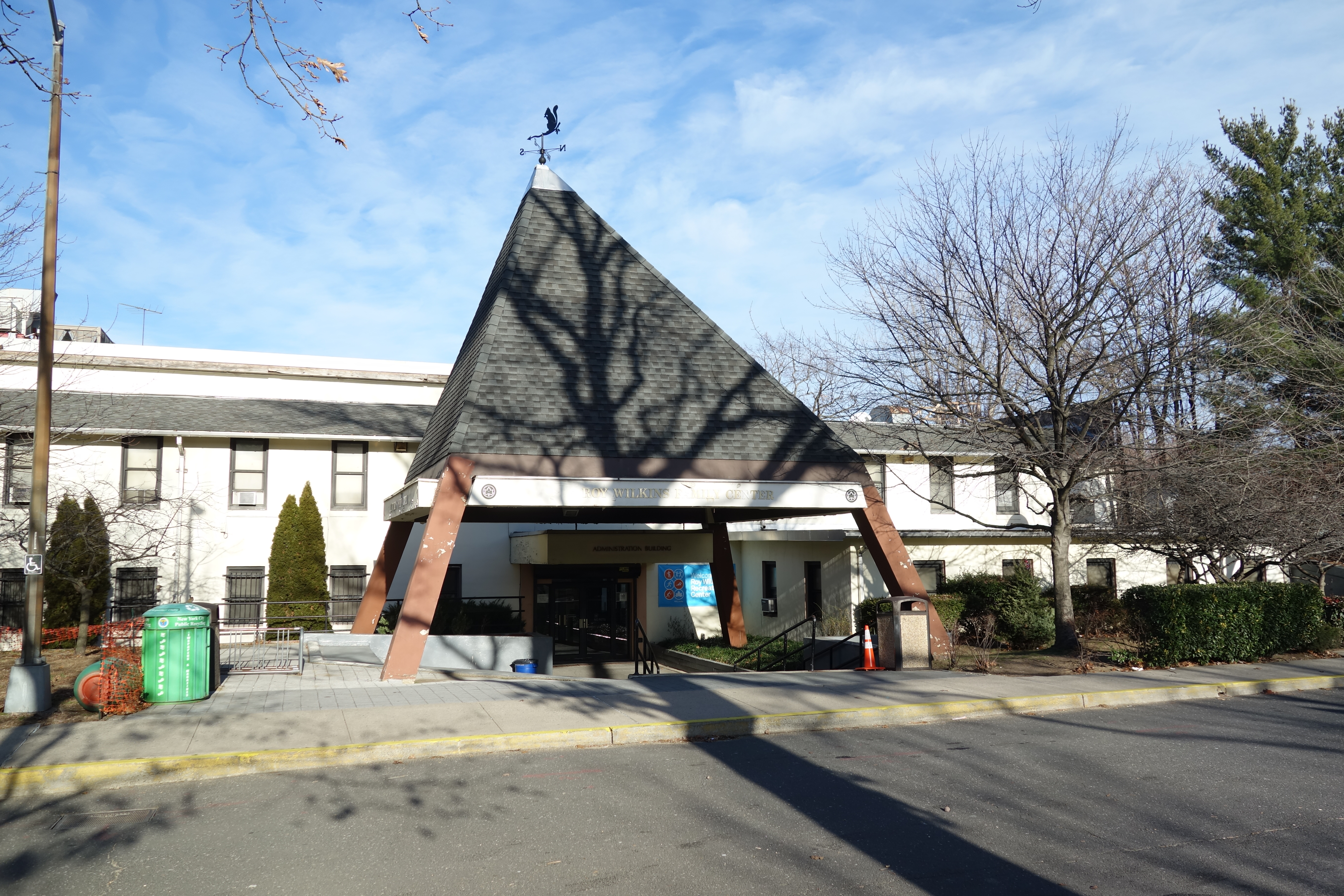 The Roy Wilkins Family Center at the south end of Roy Wilkins Park (Roy Wilkins Recreation Center), at Baisley Boulevard, 117th Street, and 177th Place in St. Albans, Queens. The rec center was converted from one of the former St. Albans Naval Hospital buildings, I believe the former chapel, in 1986. Pictured is the tipi structure at the entrance.